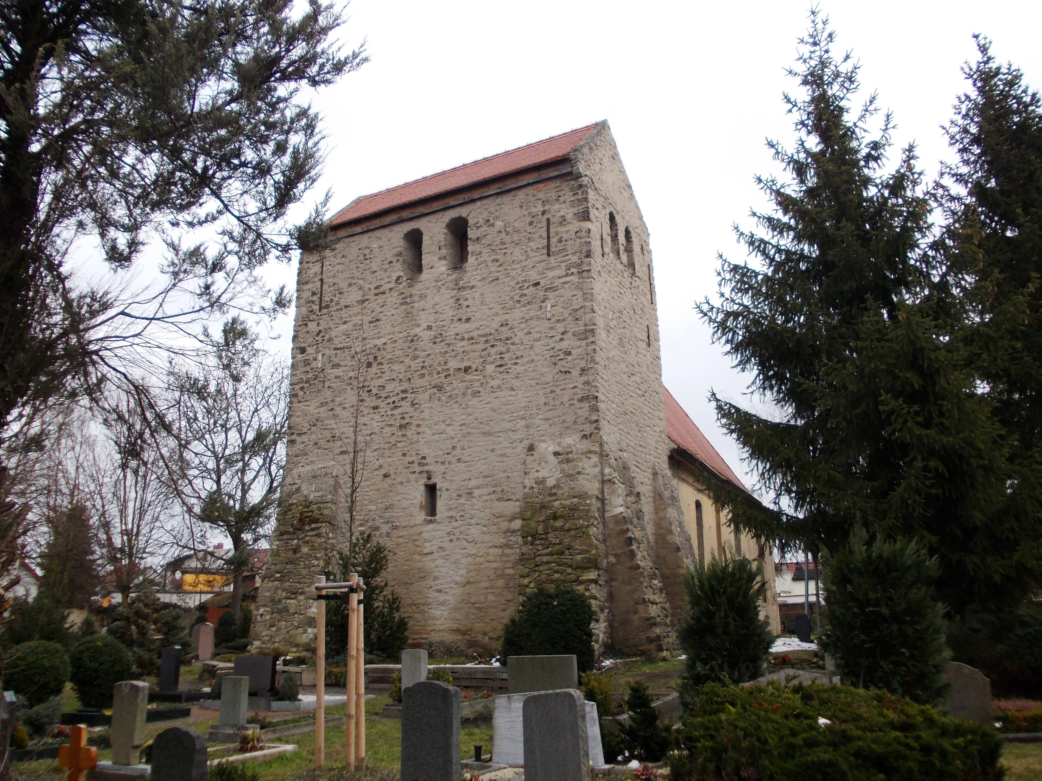 St. Peter's Church in Wörmlitz (Halle/Saale)